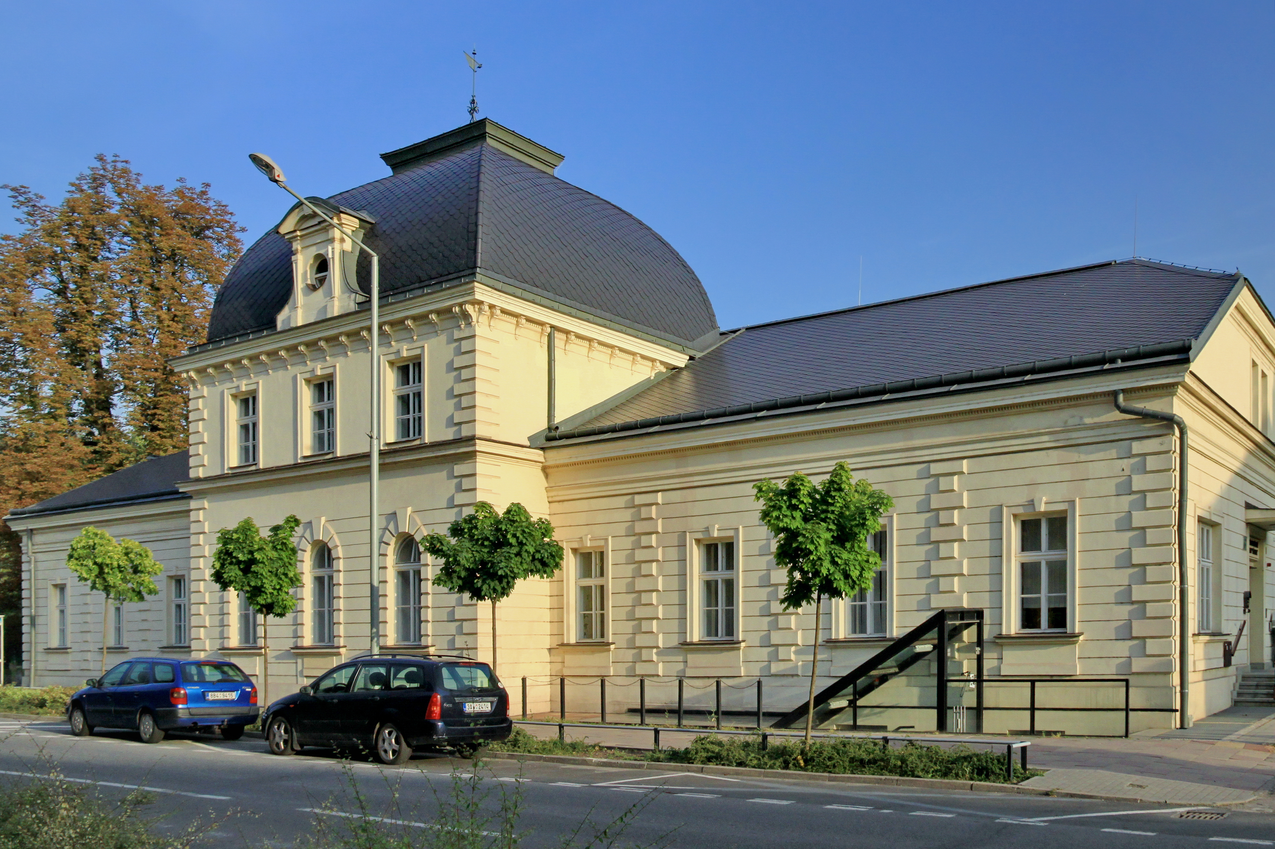 Cultural and social center (former shooting range from 1882), 1 Střelniční street, Český Těšín. Moravian-Silesian Region, Czech Republic.